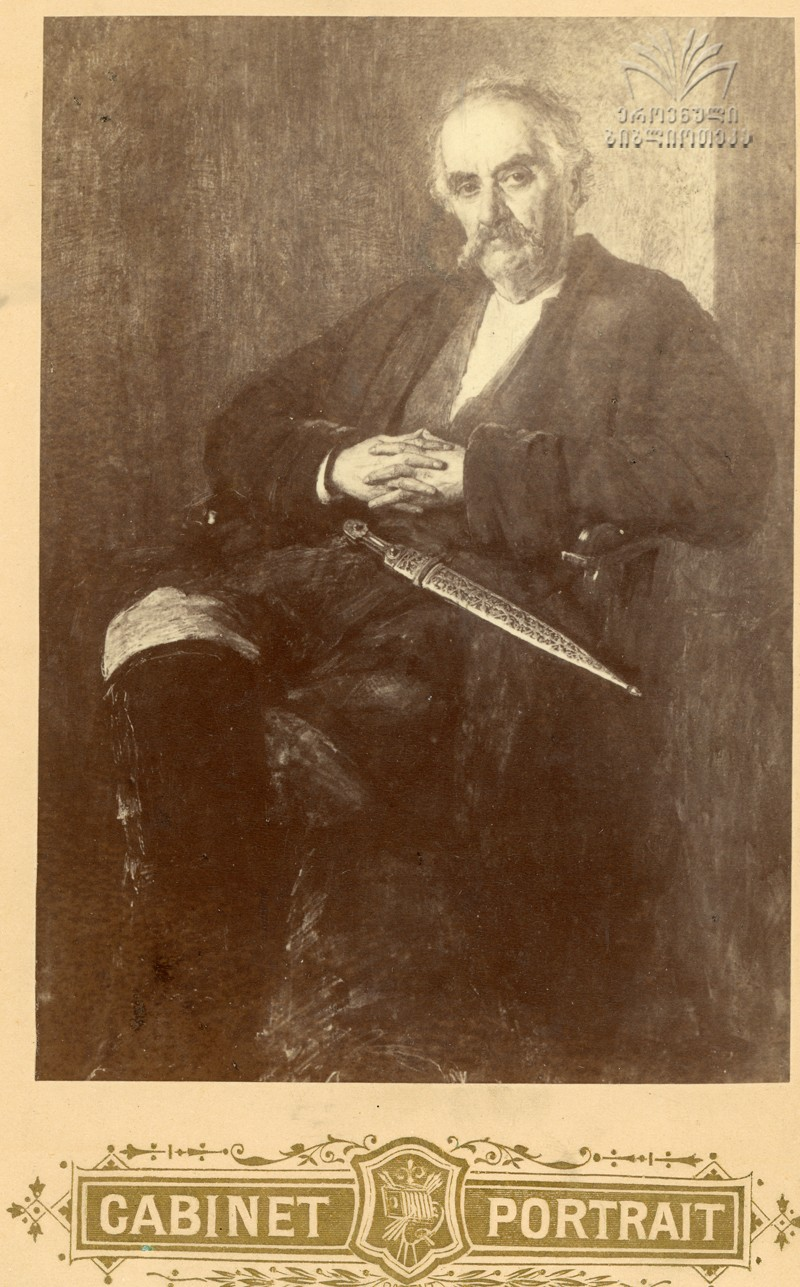 Eristavi Giorgi